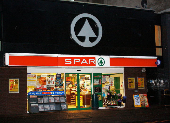 Spar, Perth Road, Dundee